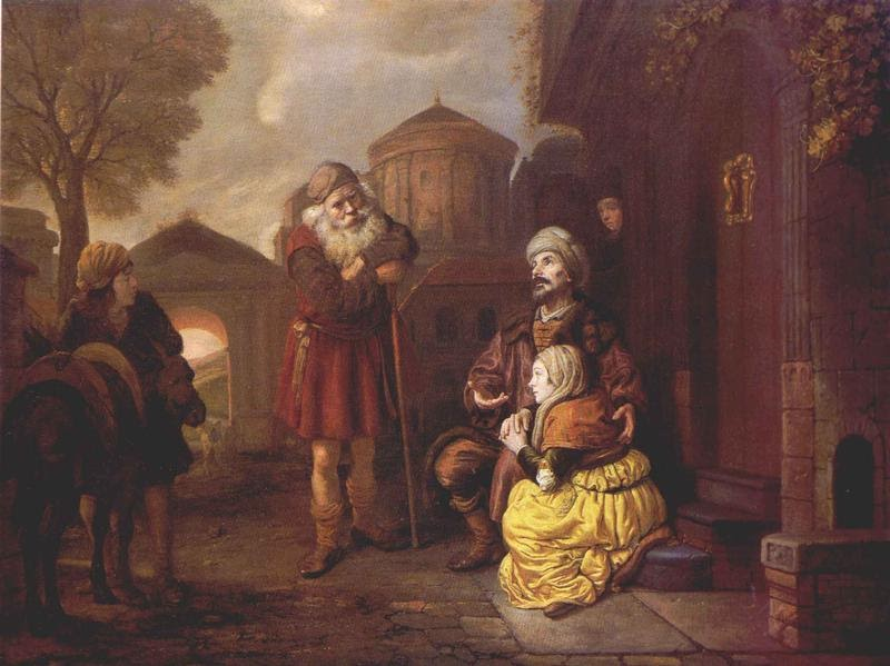 The Levite and his concubine at Gibeah. Левит и наложница его в Гиве (The National Gallery of Ireland, Dublin)